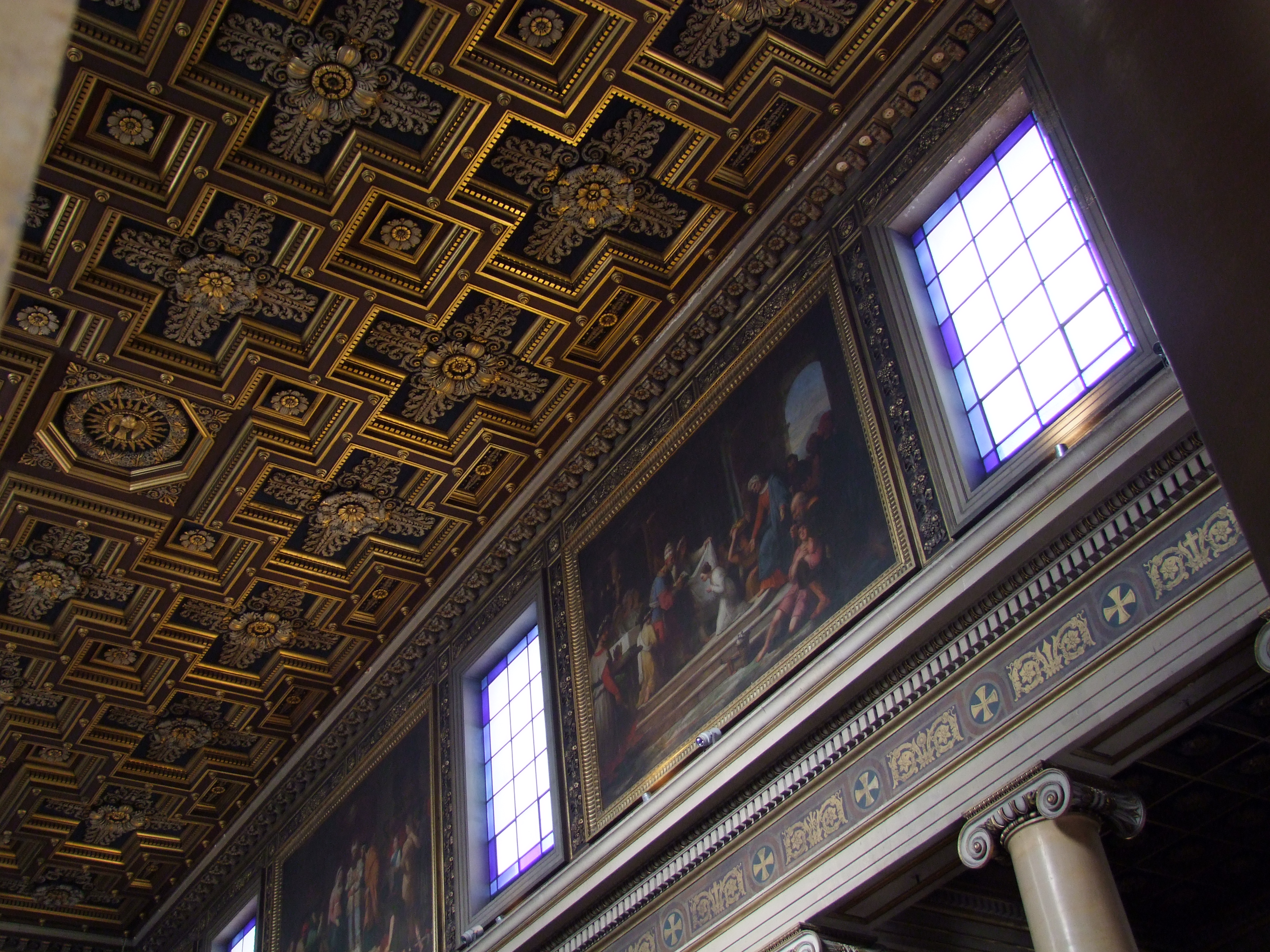 Church Notre-Dame-de-Lorette, Paris (interior)